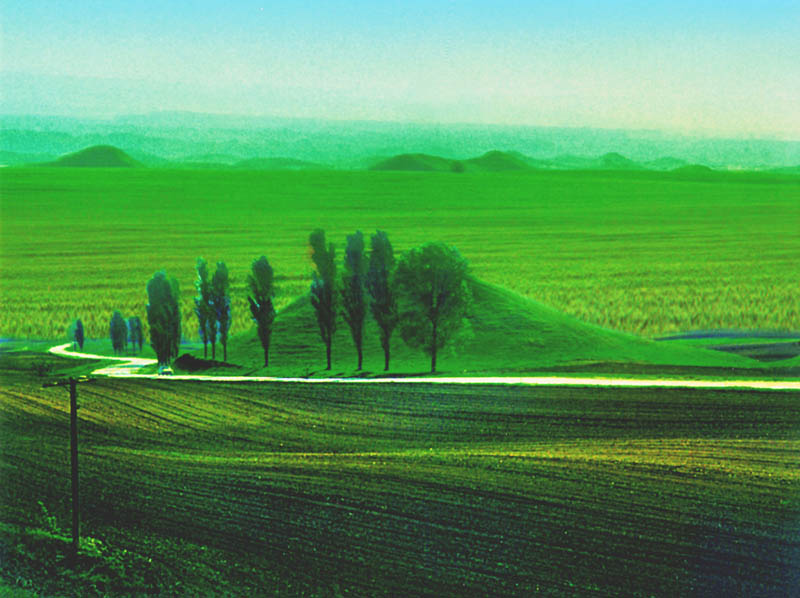 It is said that here in Riscani district were fierce was heavy fighting in this vast field. The largest mound is called "Movila Tiganului", reaching 30 meters in height.